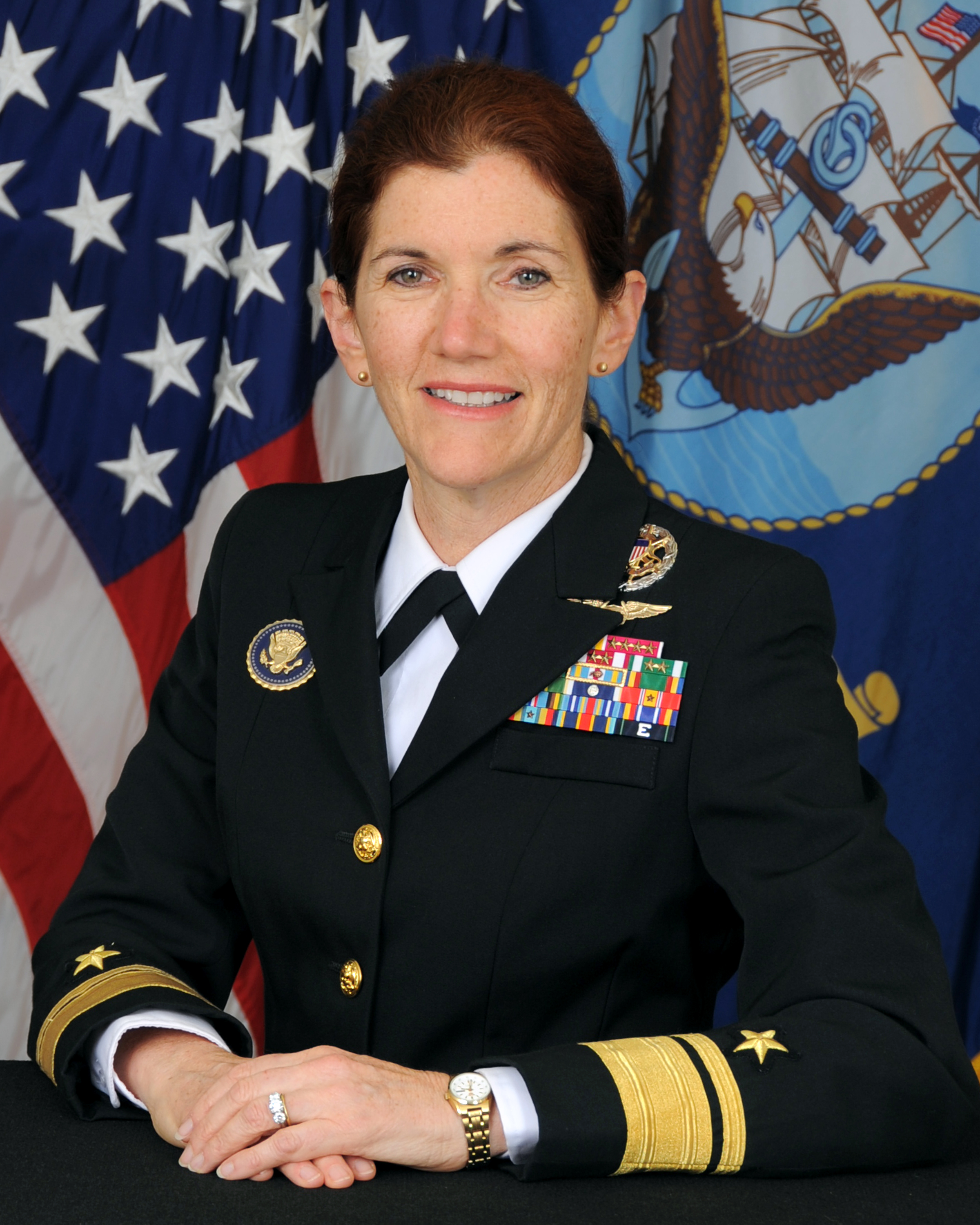 Rear Adm. Margaret D. Klein